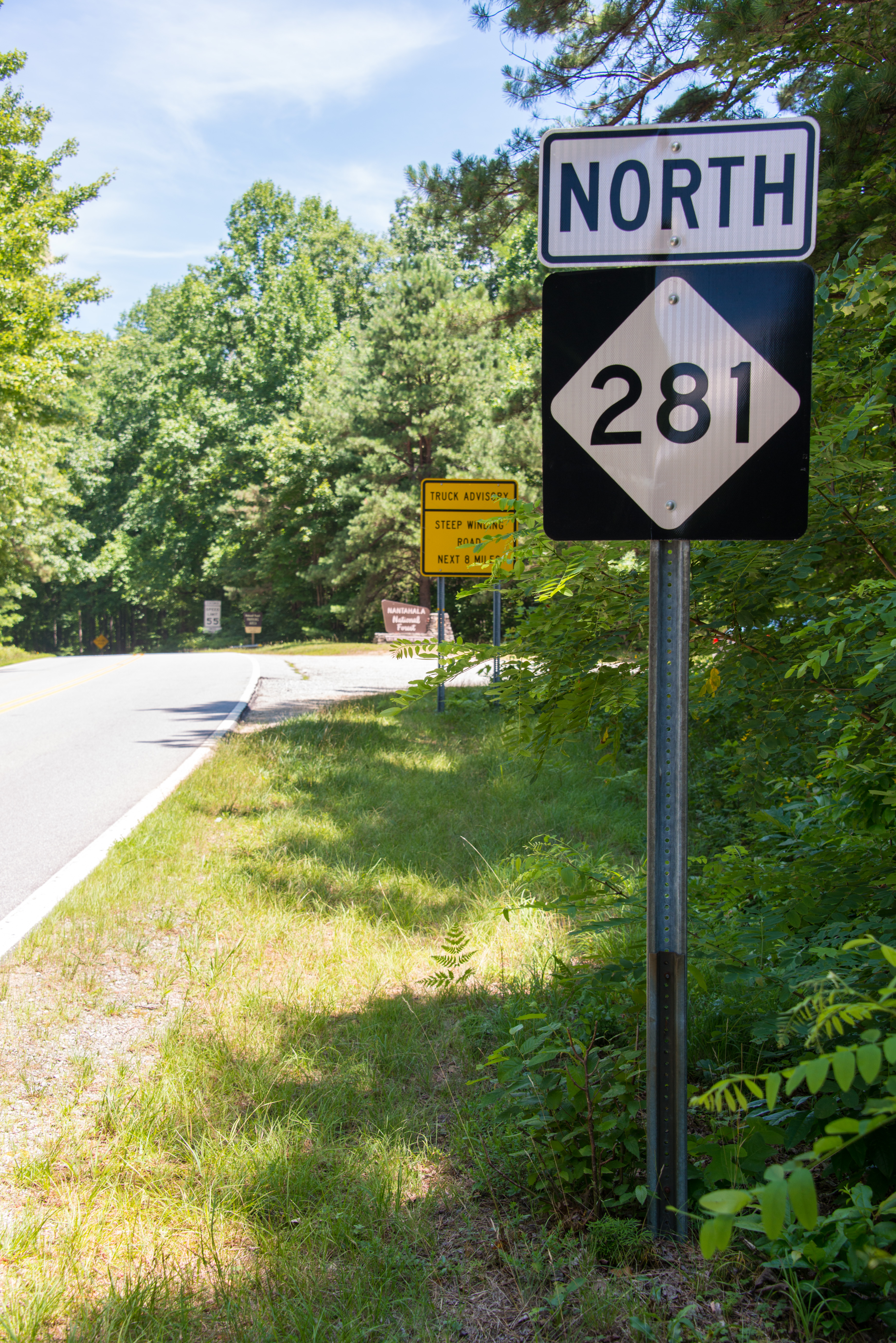 First sign of northbound North Carolina Highway 281, from the North Carolina/South Carolina state line. Further away is a truck advisory sign and the Nantahala/Sumter National Forest sign.